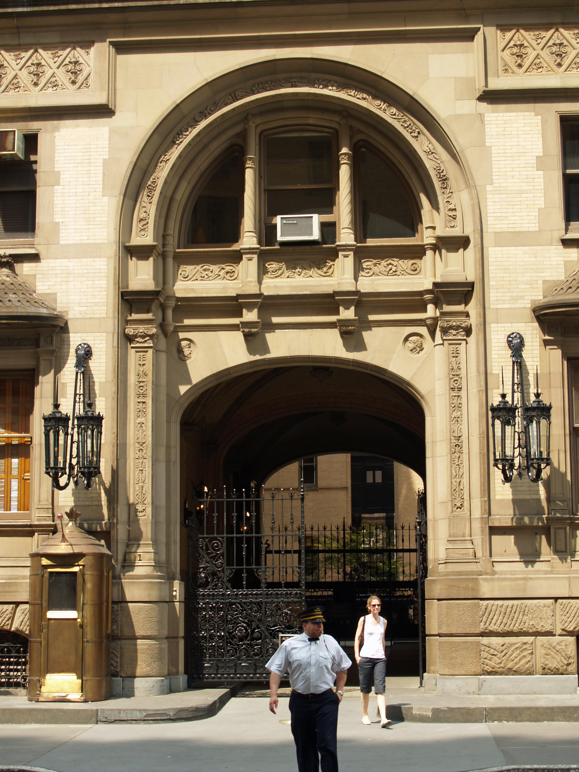 1 West 72nd Street (The Dakota) entrance